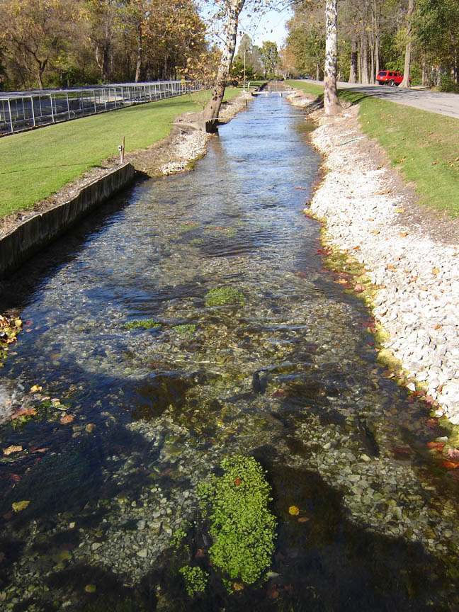 Ohio Trout Hatchery. Part of State fish hatchery. Erie County, Ohio., Erie.